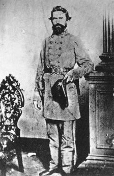 Jerome B. Robertson, Confederate General, from